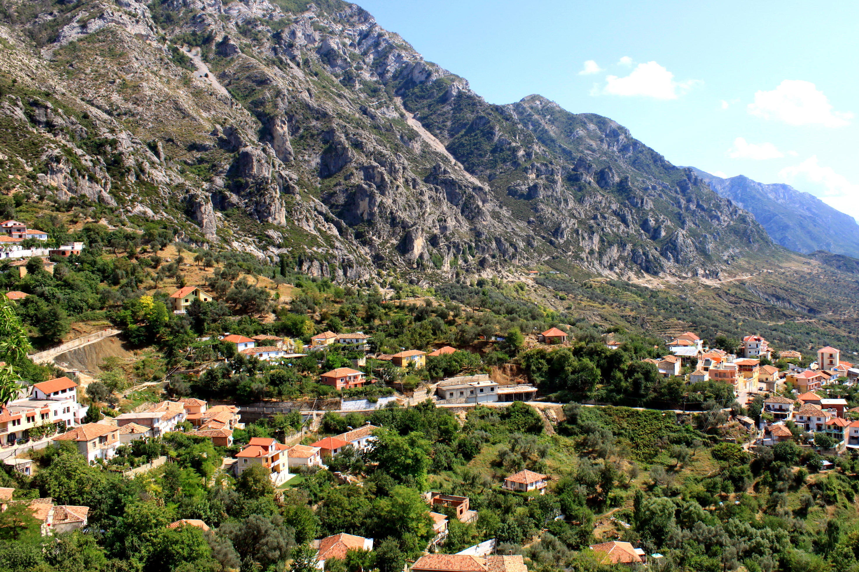 View from the castle over the city, Krujë, Albania